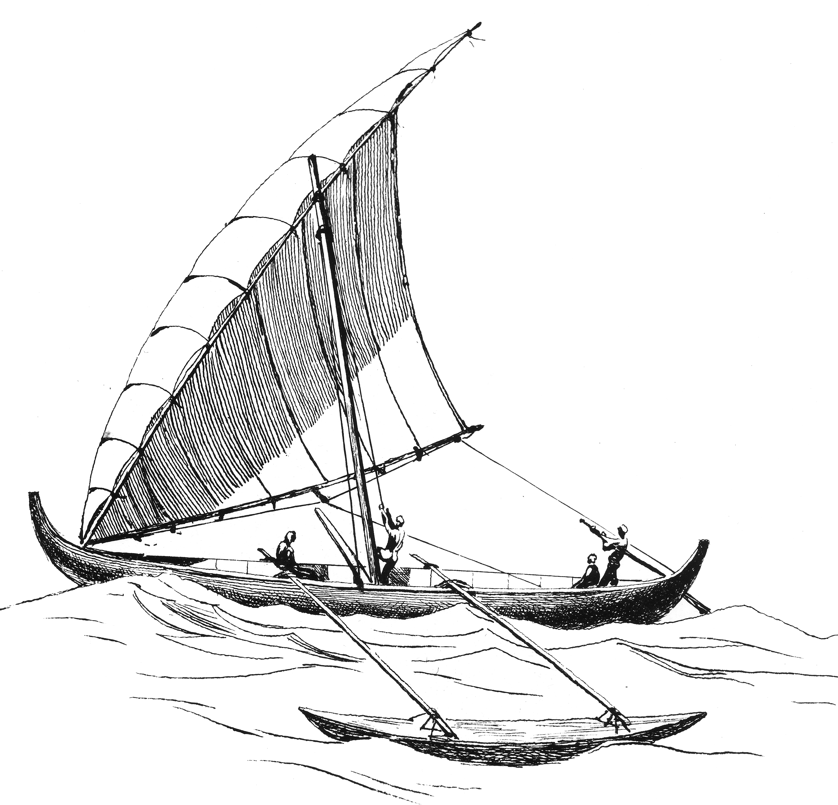 Line art drawing of proa.